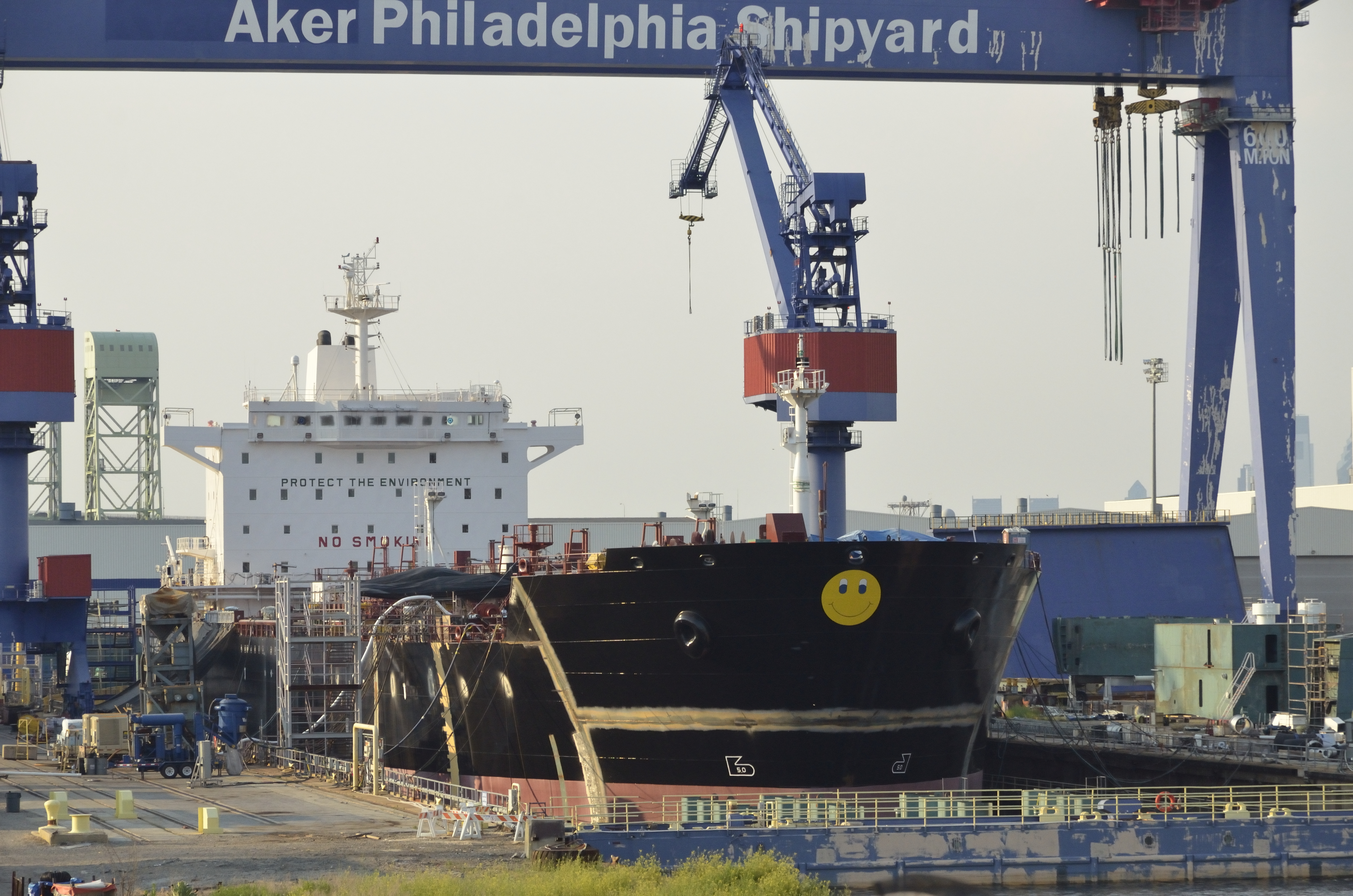 Tanker under construction